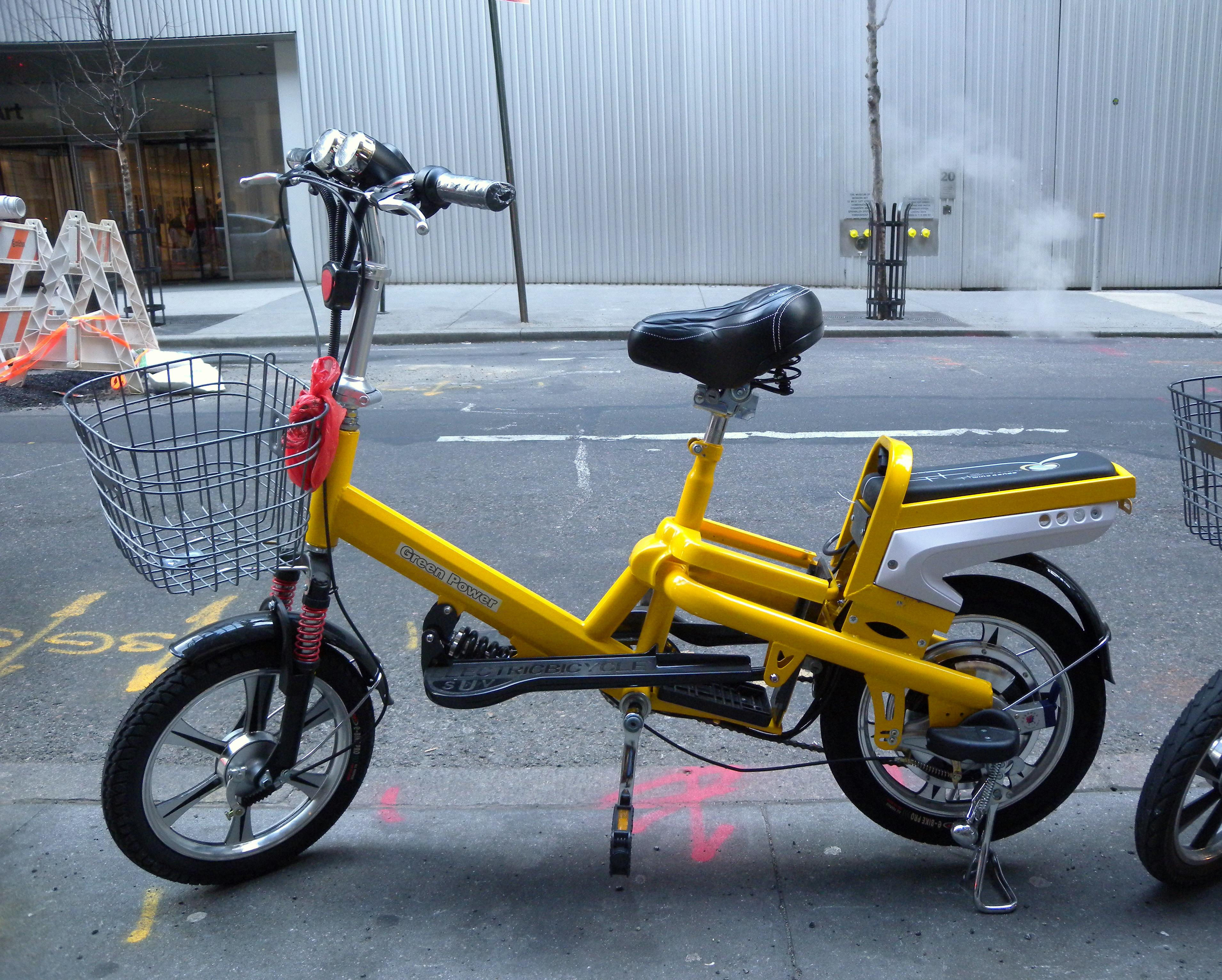 Looking south at a yellow electric bike on West 54th Street.